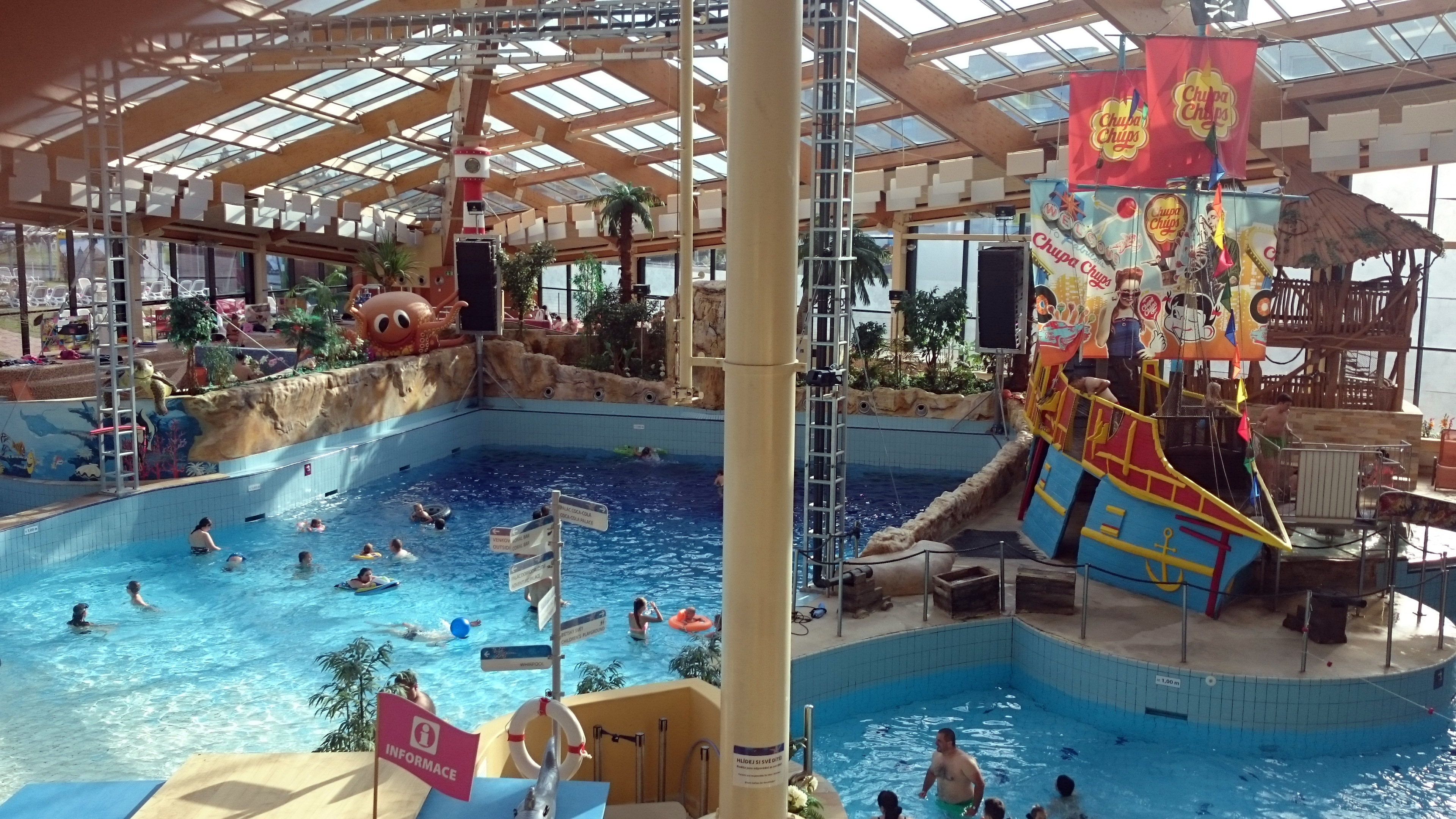 Interior of Aquapalace Praha in 2016 (Treasure Palace).